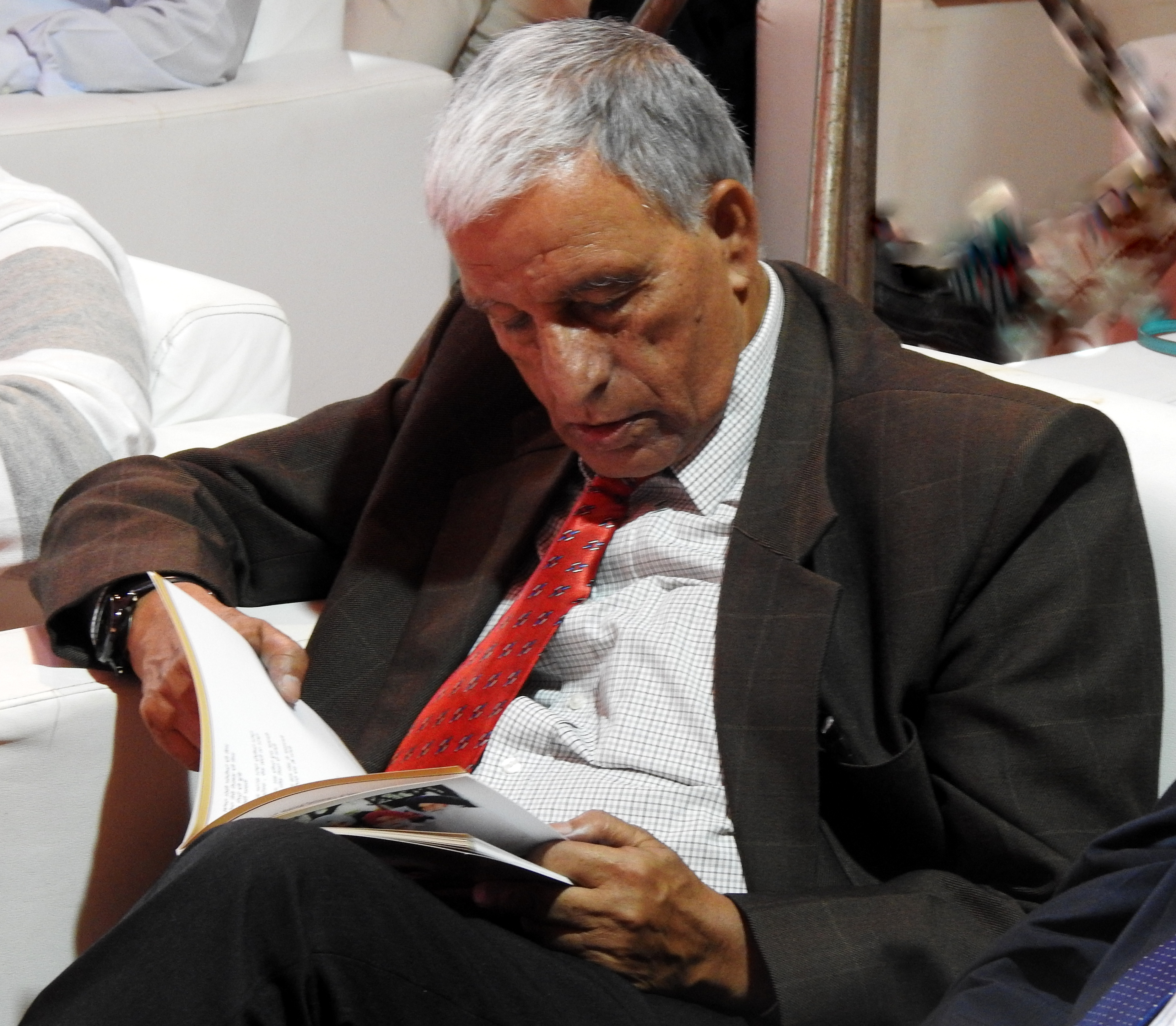 Khalid Hussain is a Punjabi Story writer from Jammu and Kashmir region of India. He is a retired Indian Administrative Service (IAS) officer.